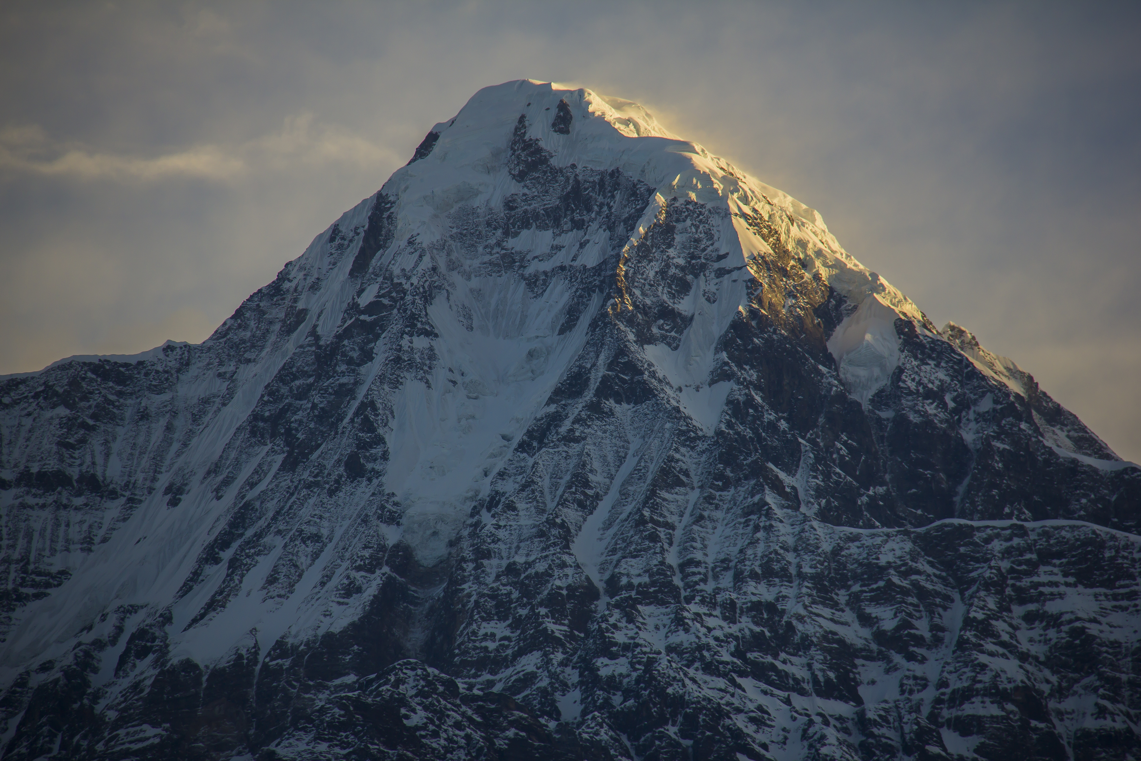 Himchuli Peak (6441m) lies in the Annapurna range and connected to Annapurna South like its own part forming a massive south facing wall. The Himchuli was first summated by an American Peace Corps Expedition under the leadership of Craig Anderson in October 1971 via its southeast face. Himchuli Peak always offers magnificent view to the every trekker those who are visiting Annapurna Base camp.